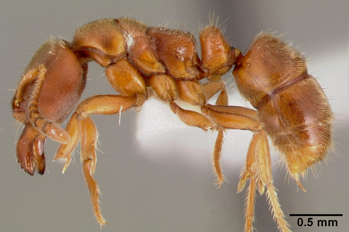 Profile view of ant Cryptopone gilva specimen casent0003325.